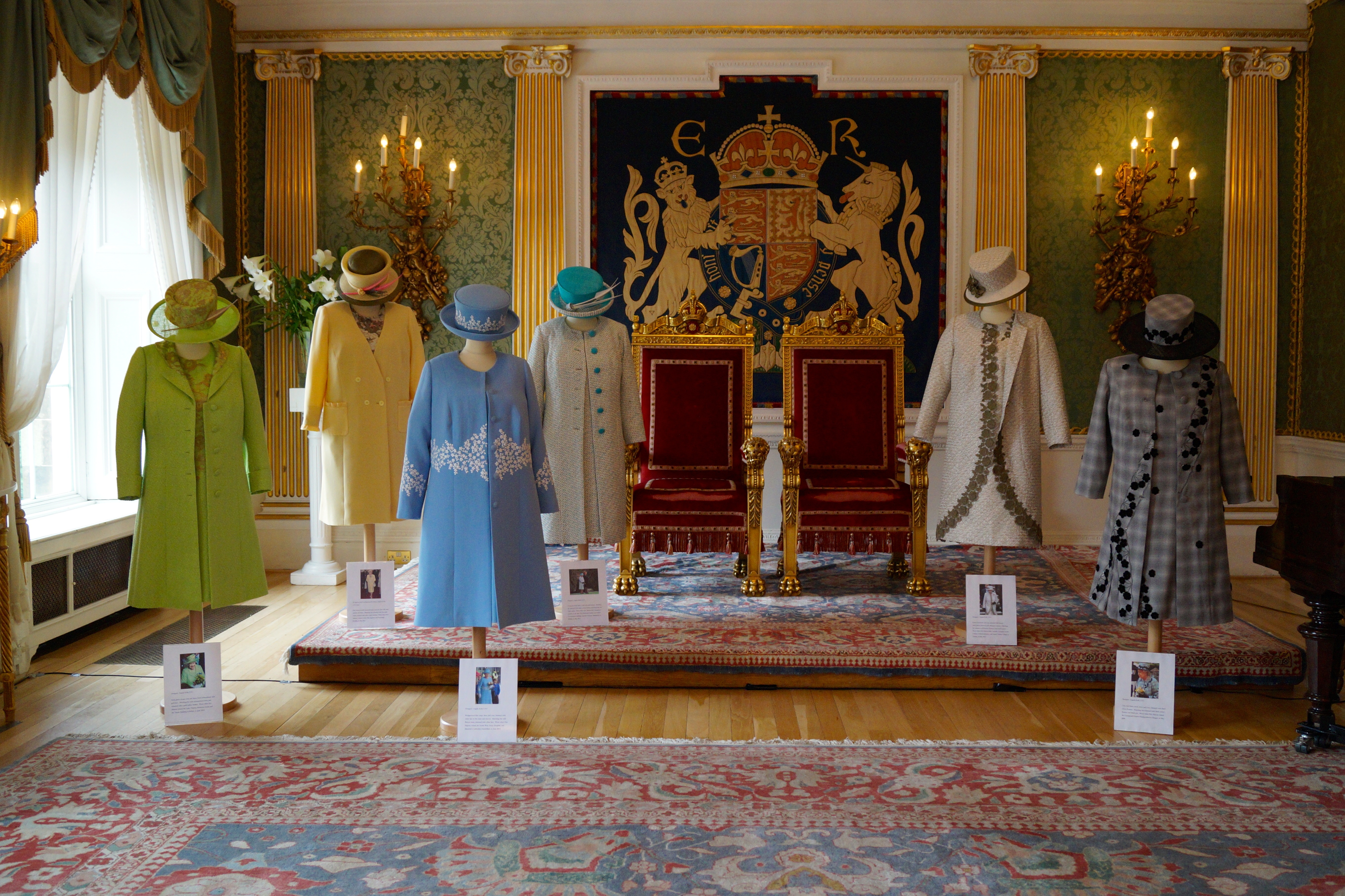 "Five of the six outfits on display and all six hats were designed by Angela Kelly LVO, personal assistant and senior dresser to The Queen since 2002. The sixth outfit was designed by Karl Ludwig, business partner of John Anderson who designed Her Majesty’s dresses from 1988 until 1996. Karl took over the mantle after John’s death in 1988 and The Queen still wears his designs today."